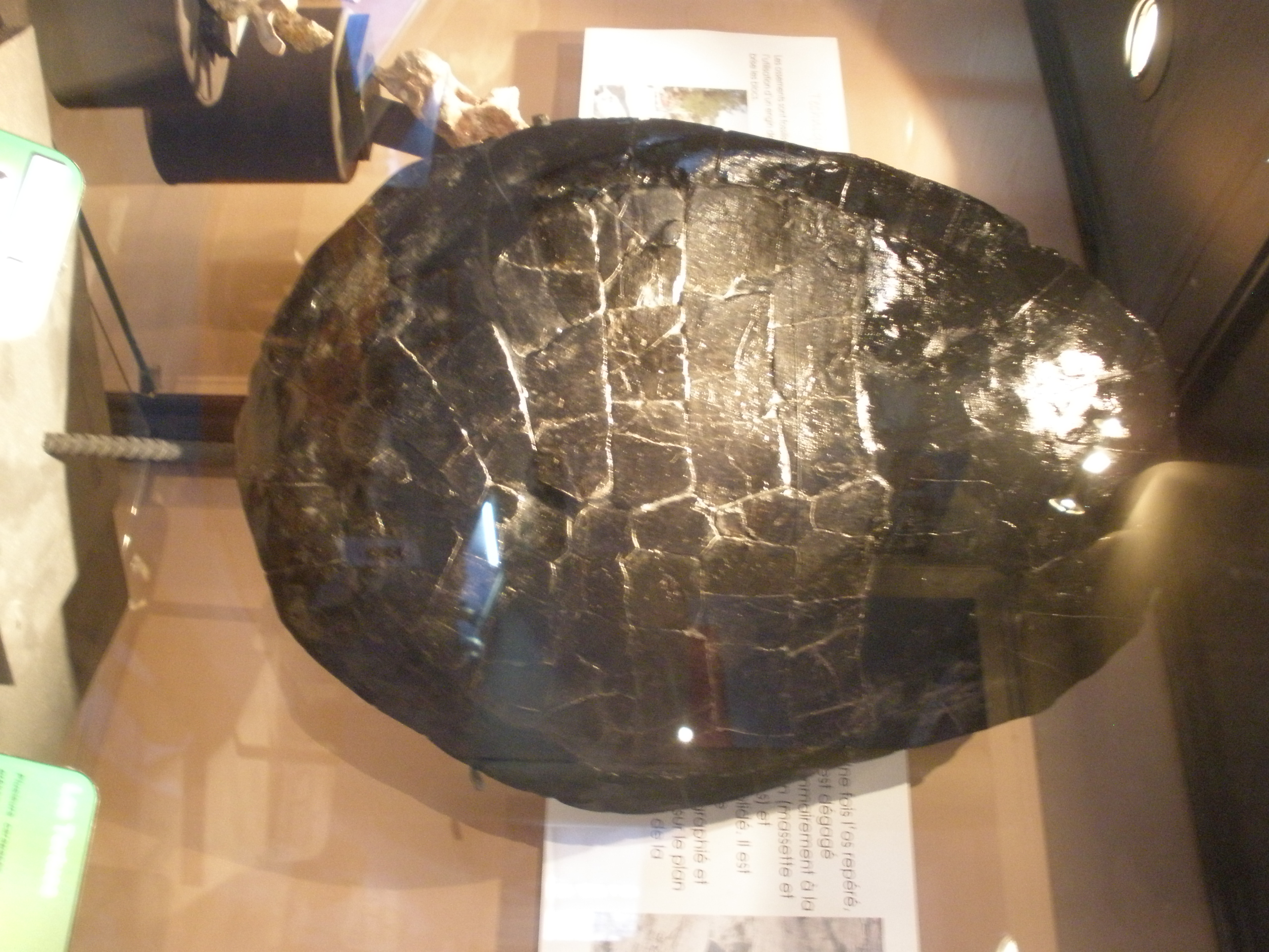 fossil plastron of Polysternon provinciale, an extinct turtle